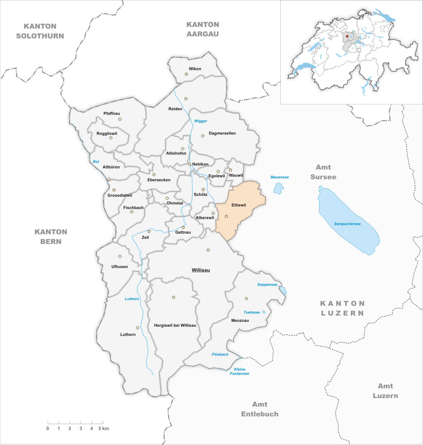 Municipality Ettiswil